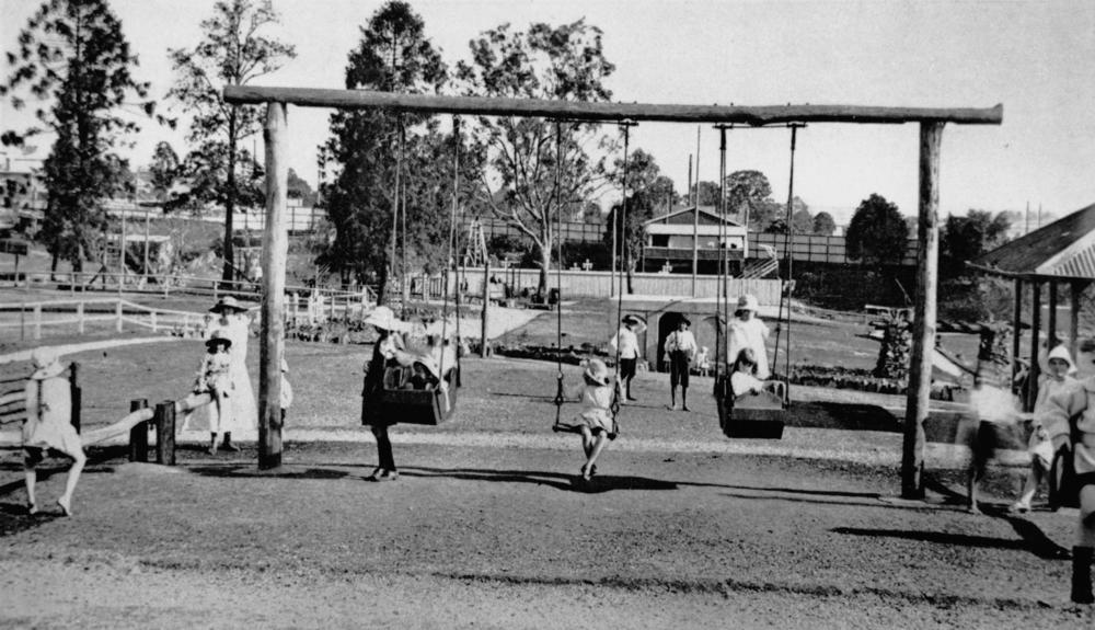 Children's playground at Ithaca, Red Hill, 1918 Children using playground equipment in a park at Ithaca. The swings are mounted to wooden poles and the see-saw is a pole with a wooden seat on each end.